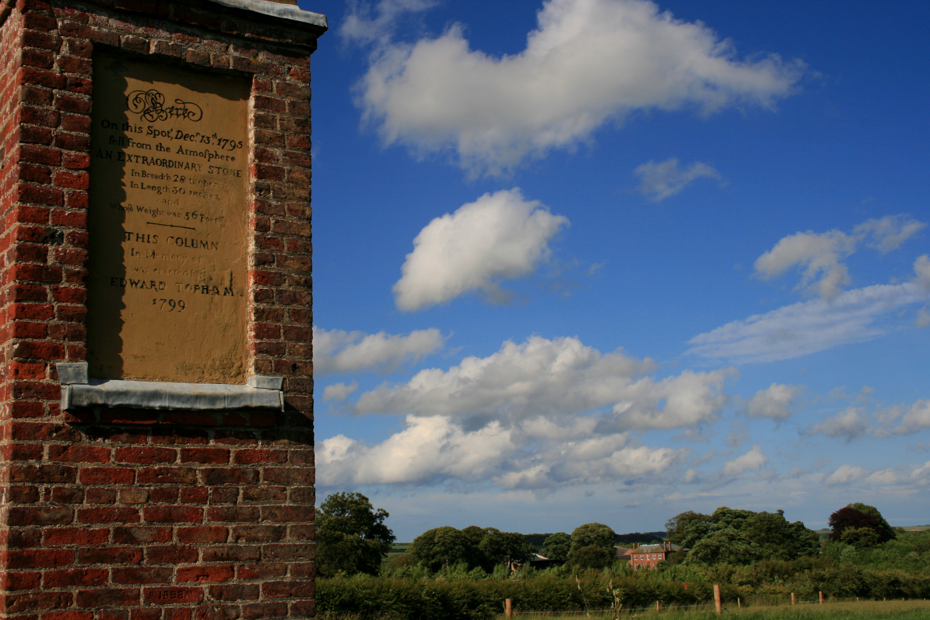 Wold Cottage meteorite landmark, Wold Newton, East Riding of Yorkshire, England.It was built by Edward Topham in 1799 to mark the spot where ther Wold Cottage meteorite fell in December 1795. Wold Cottage meteorite is the second largest fall in the United Kingdom. It's a L6 ordinary condrite weighing around 25kg. The meteorite fell in 1795, landing within two fields distance of a large house owned by one Edward Topham - a poet, playright, landowner and well respected local.